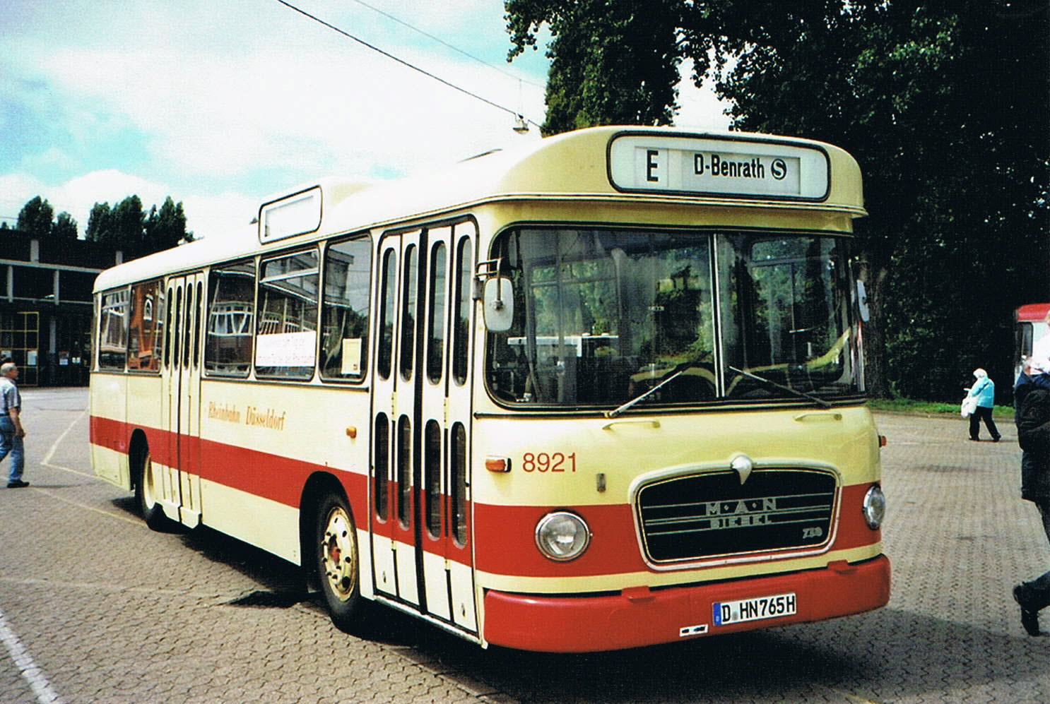 MAN 750 HO, built in 1970, here in Düsseldorf-Benrath